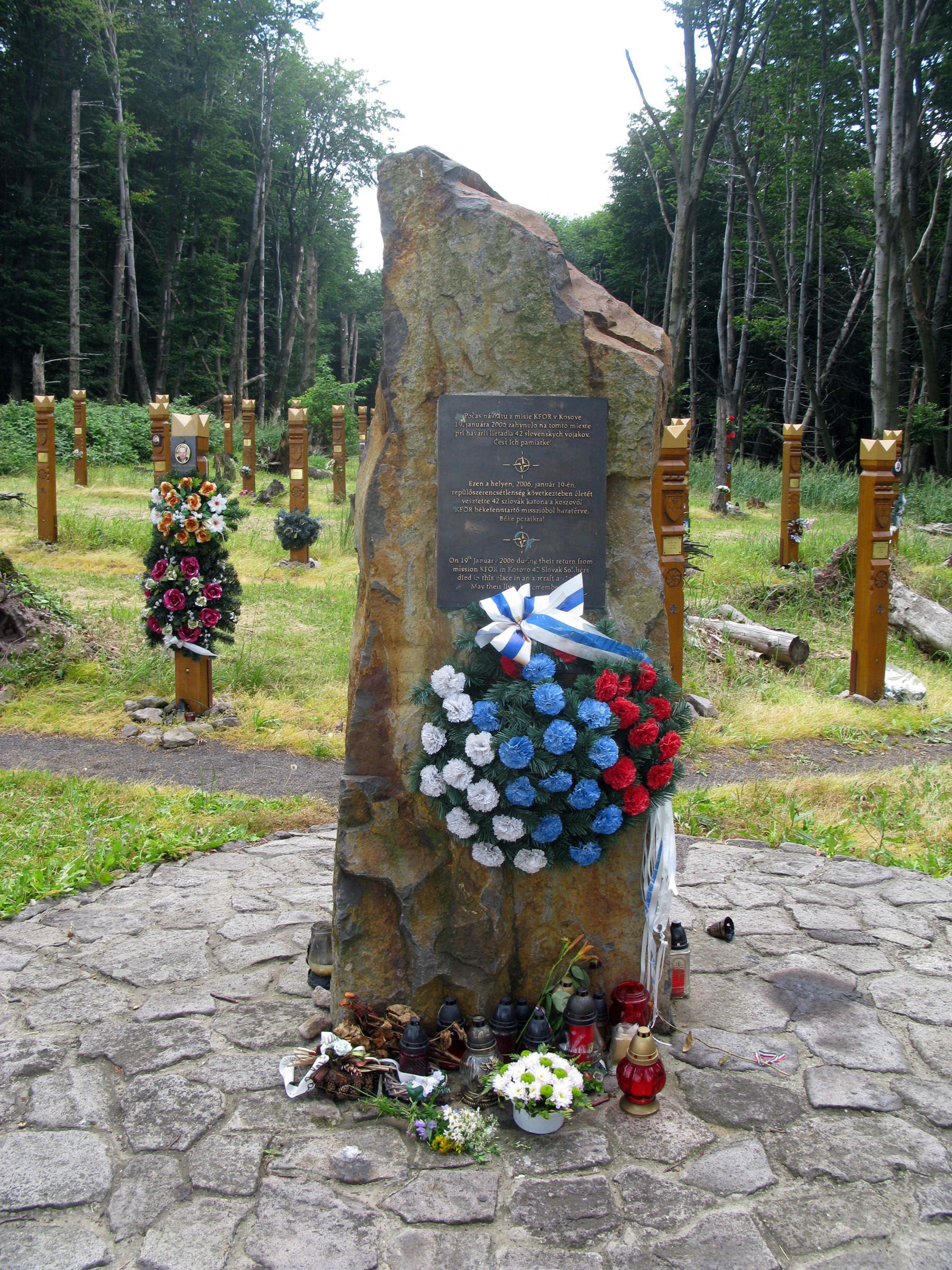 Memorial of the victims of the Slovak Air Force Antonov An-24 crash on the Borsó Hill in Hungary